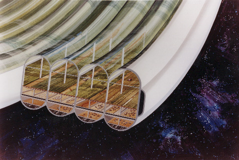 View of Bernal Sphere agricultural module (multiple toroids) with cutaway to expose interior